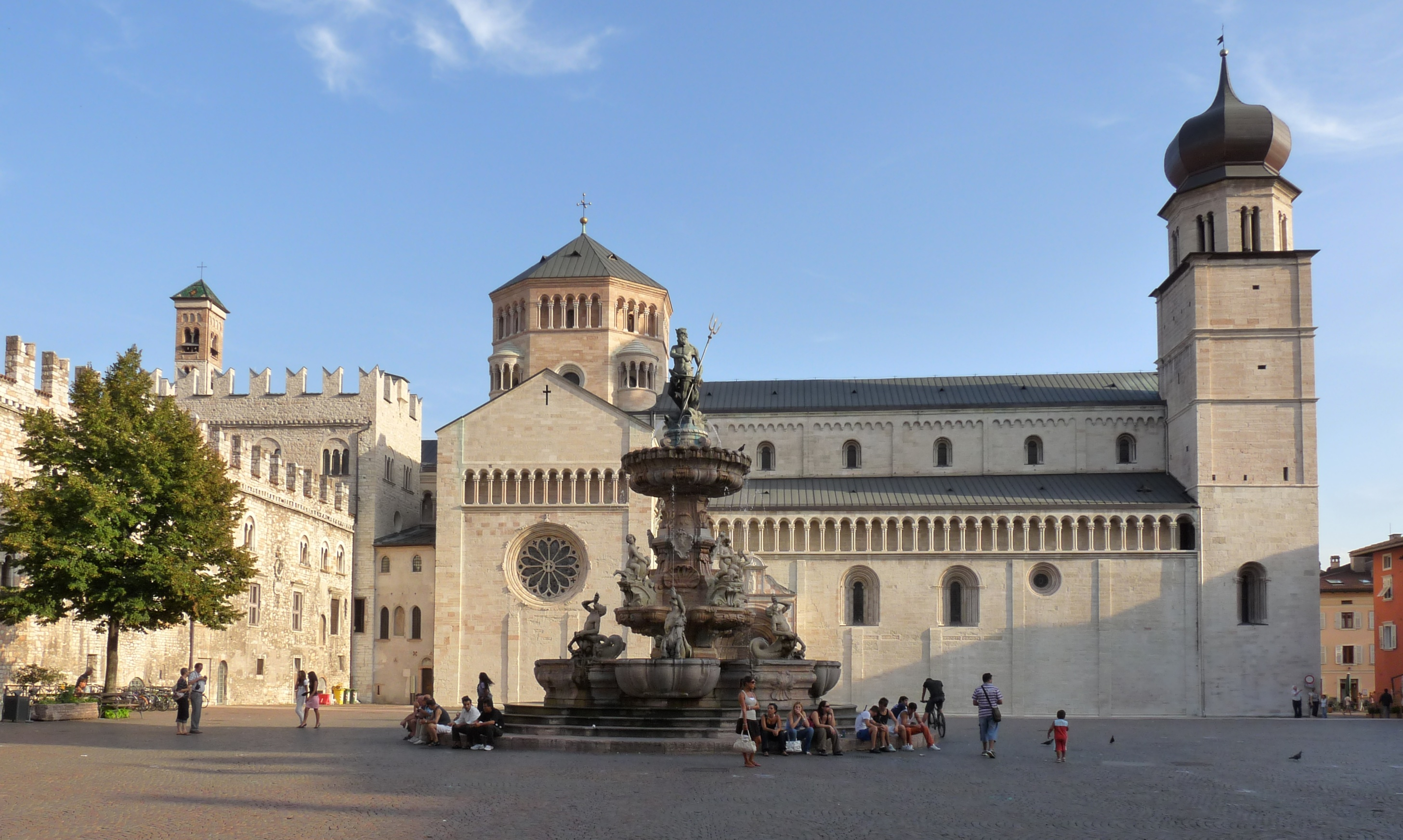 Trento (Italy): Piazza del Duomo, with the fountain of Netpune and the northern side of the cathedral of Saint Vigilius